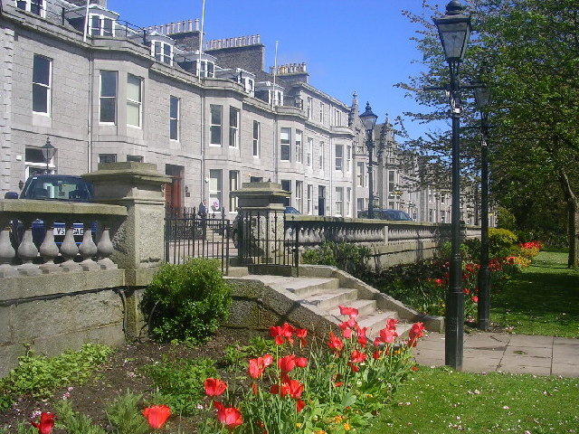 Granite and Flowers in the West End